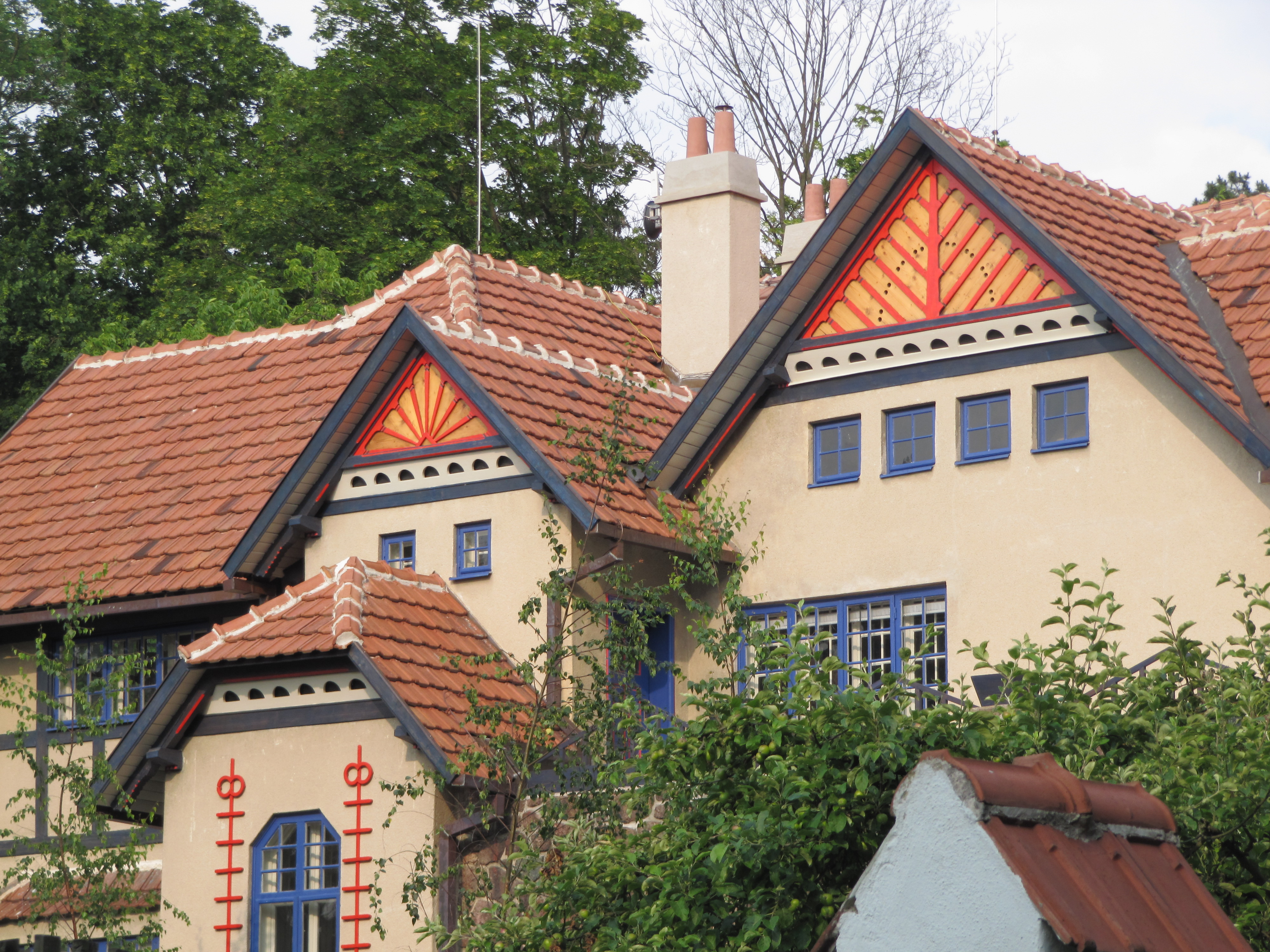 Brno, part Žabovřesky, Czech Republic. Jana Nečase Street. Villa of Dušan Jurkovič, gables.